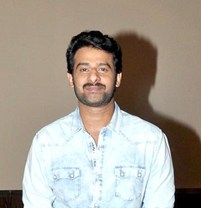 Actor Prabhas during the promotions of Baahubali at Mumbai in June 2015